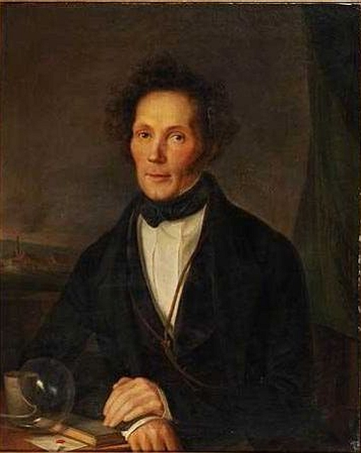 The Saxon chemist and entrepreneur Friedrich Christian Fikentscher (1799–1864)